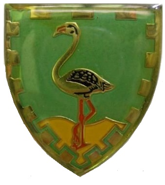 AFB Rooikop badge